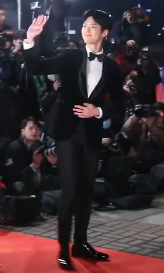 Park Bogum at KBS Drama Awards 2016